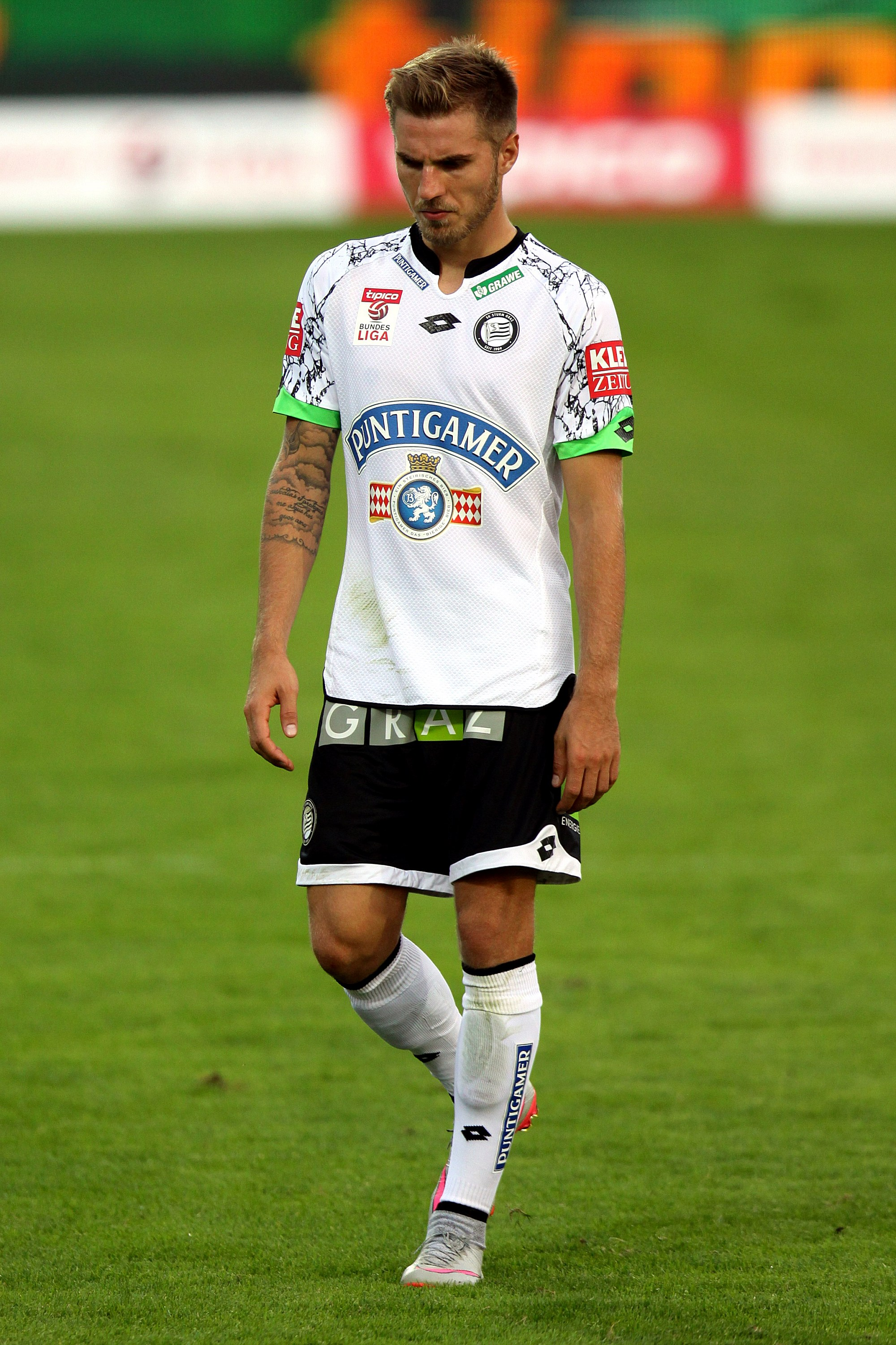 Match of the Austrian Football Bundesliga – SV Mattersburg (green shirts) vs. SK Sturm Graz (white shirts) on 2015-09-13 in Pappelstadion, Mattersburg – The photo shows Thorsten Schick